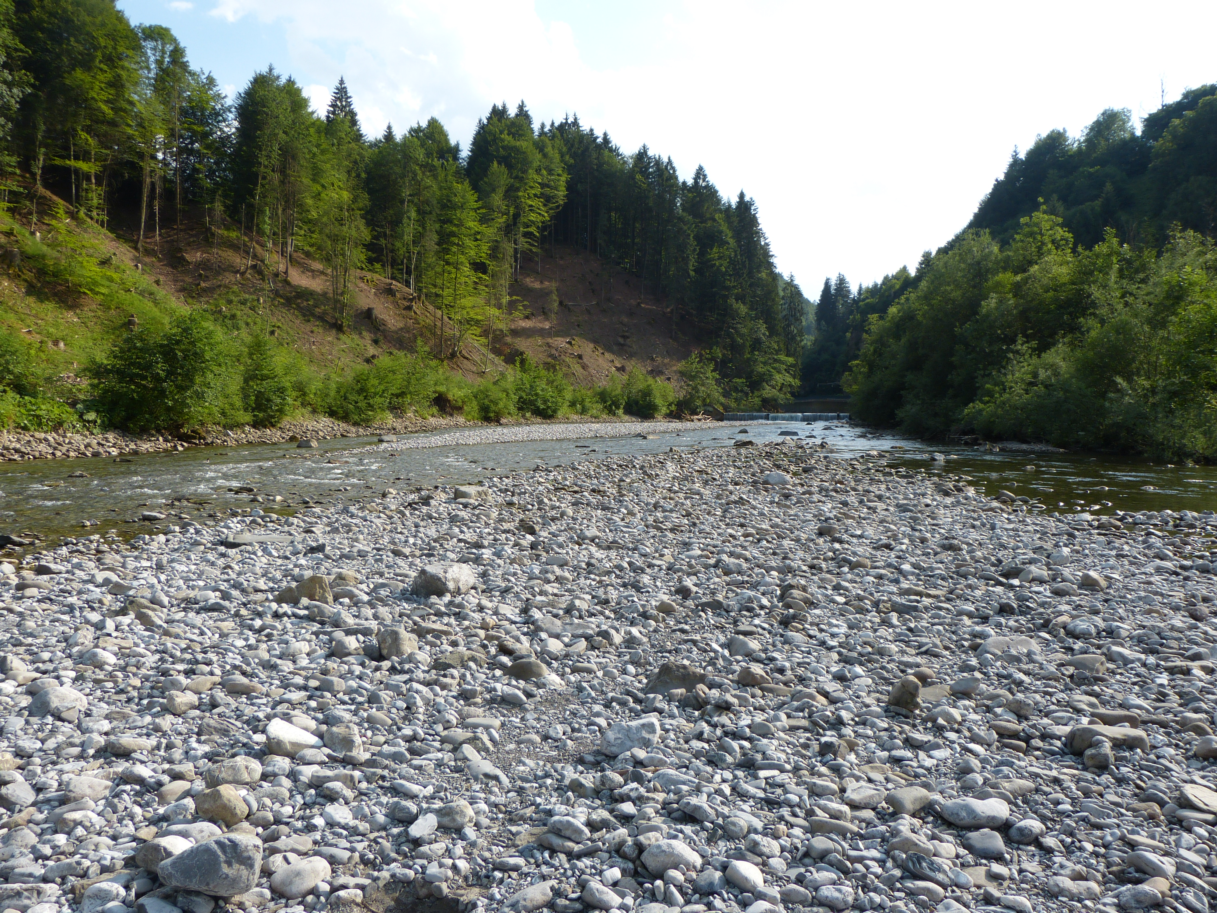 Gravel bars in Germany in river Breitach, Landkreis Oberallgäu, Bavaria